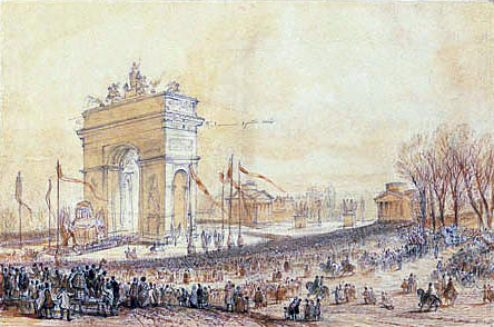 Return of the ashes of Napoleon I from Saint Helena on 15 December 1840: Napoleon's hearse goes under the Arc de Triomphe in Paris.